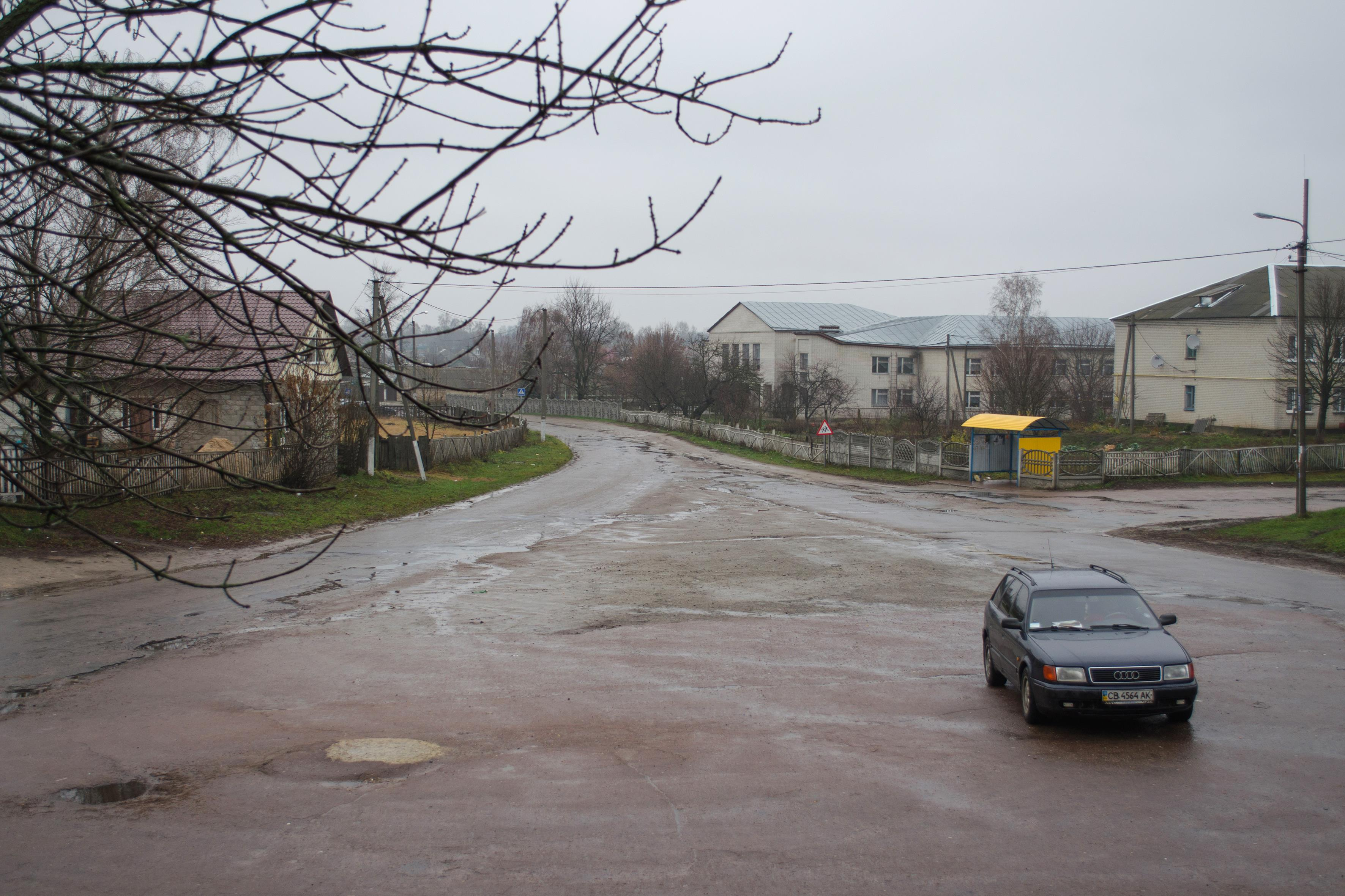 v. Kyinka, Chernihiv Raion, Chernihiv Oblast, Ukraine